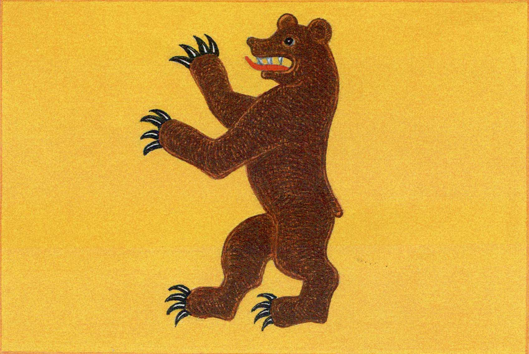 Flag of Všeruby, DomažliceDistrict